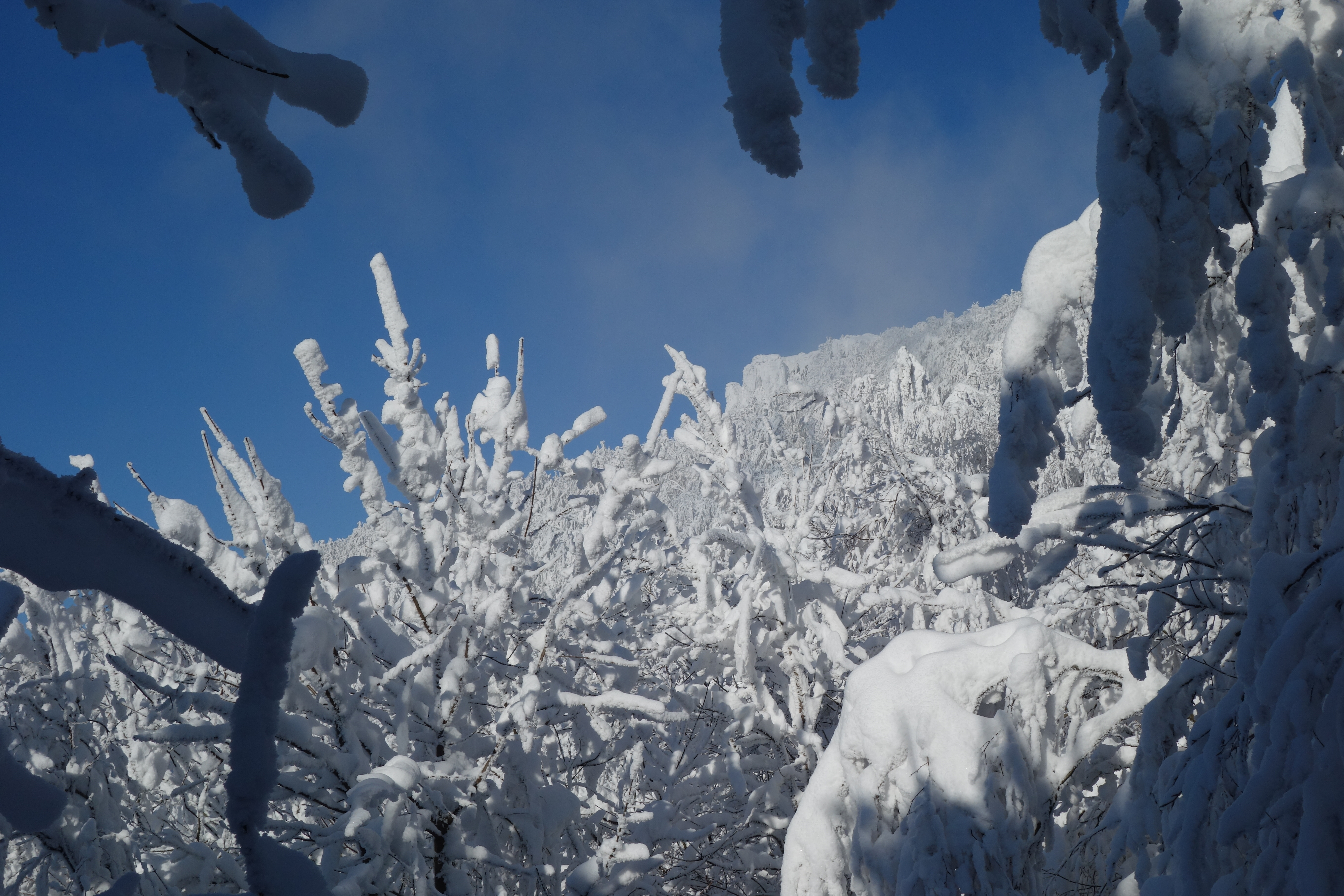 View of Sninský kameň, Vihorlatské vrchy in the winter, frost on trees This is a photography of Natura 2000 protected area with ID SKUEV0209